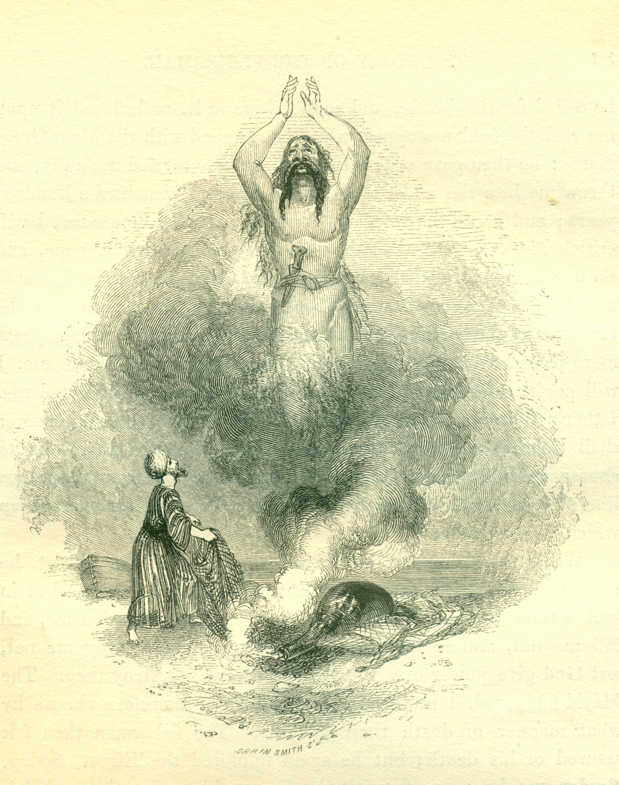 Woodcut Illustration to The Story of the Fisherman from the Arabian Nights